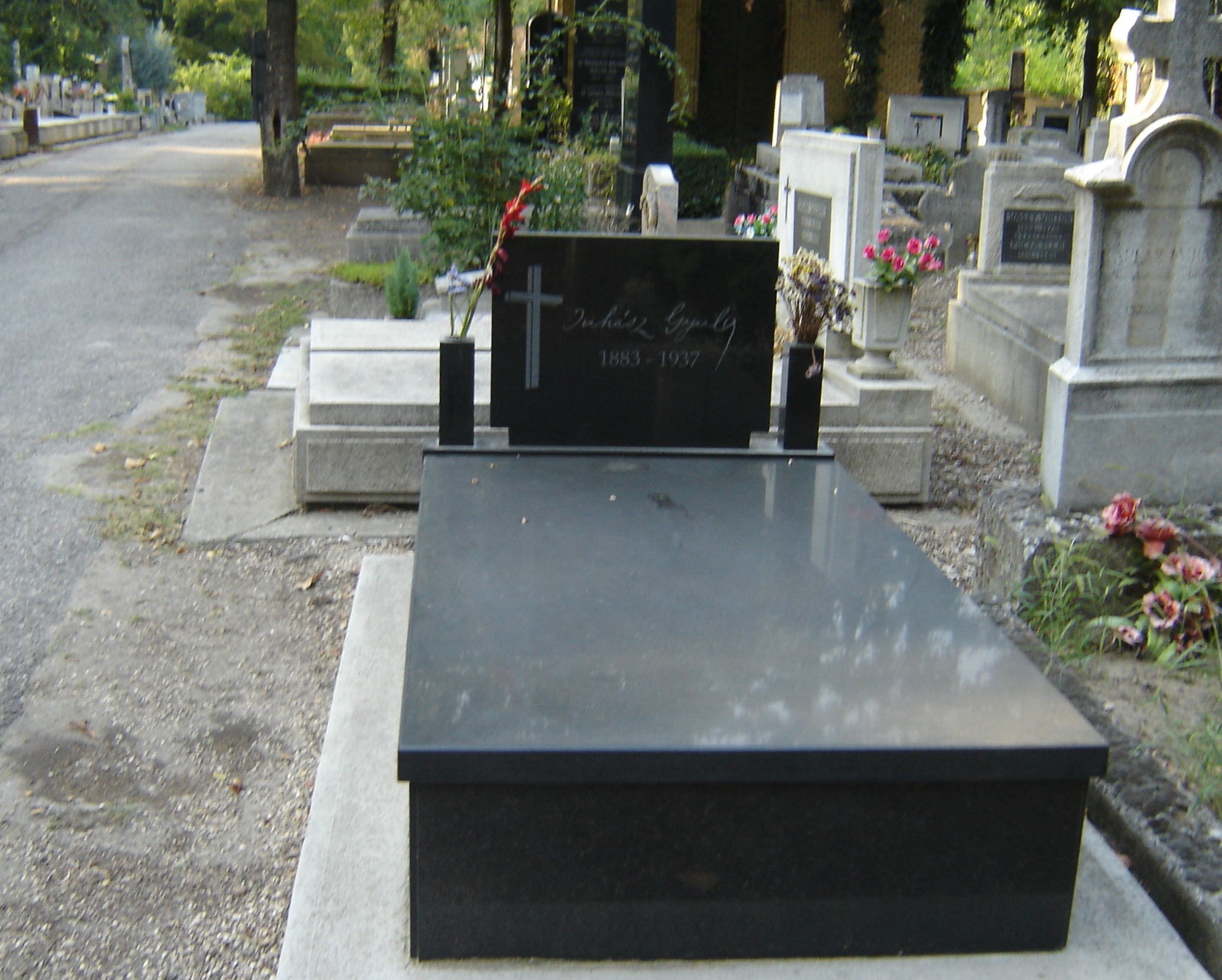 Tomb of Gyula Juhász in Szeged